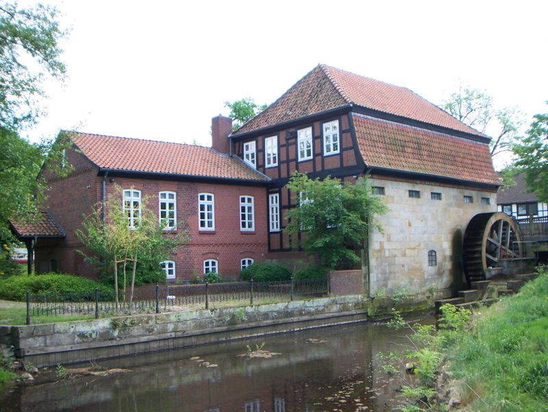 Water Mill in Weyhe, build ca. 1510, Municipal Weyhe, Lower Saxony, Germany